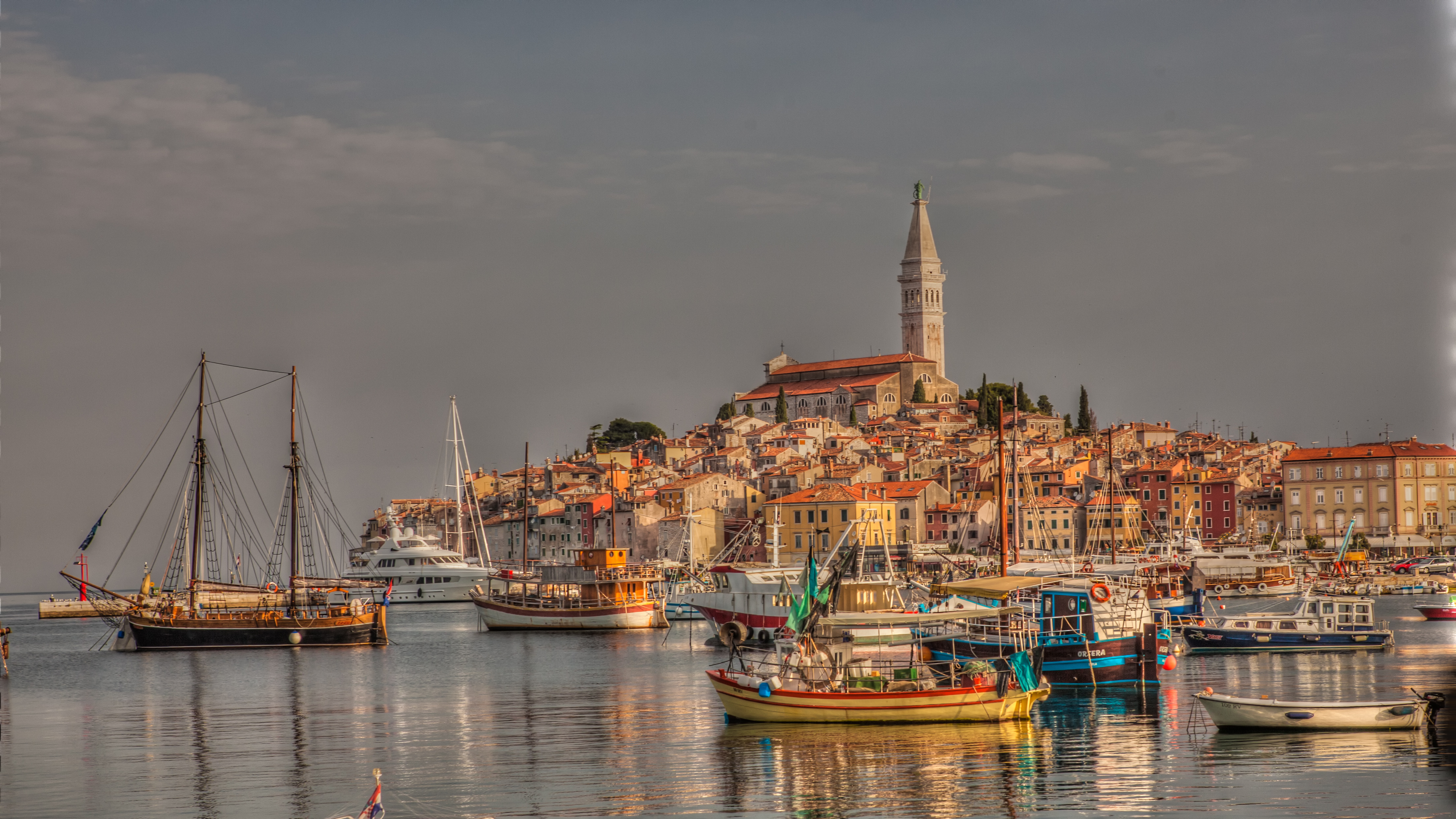 Cityscape Rovinj at sunrise.